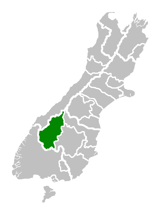 Queenstown Lakes District Map